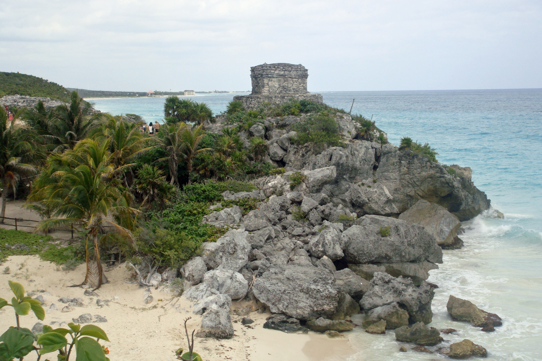 Templo Dios del Viento (God of Winds Temple) at Tulum Archaeological Site, Quintana Roo, Mexico